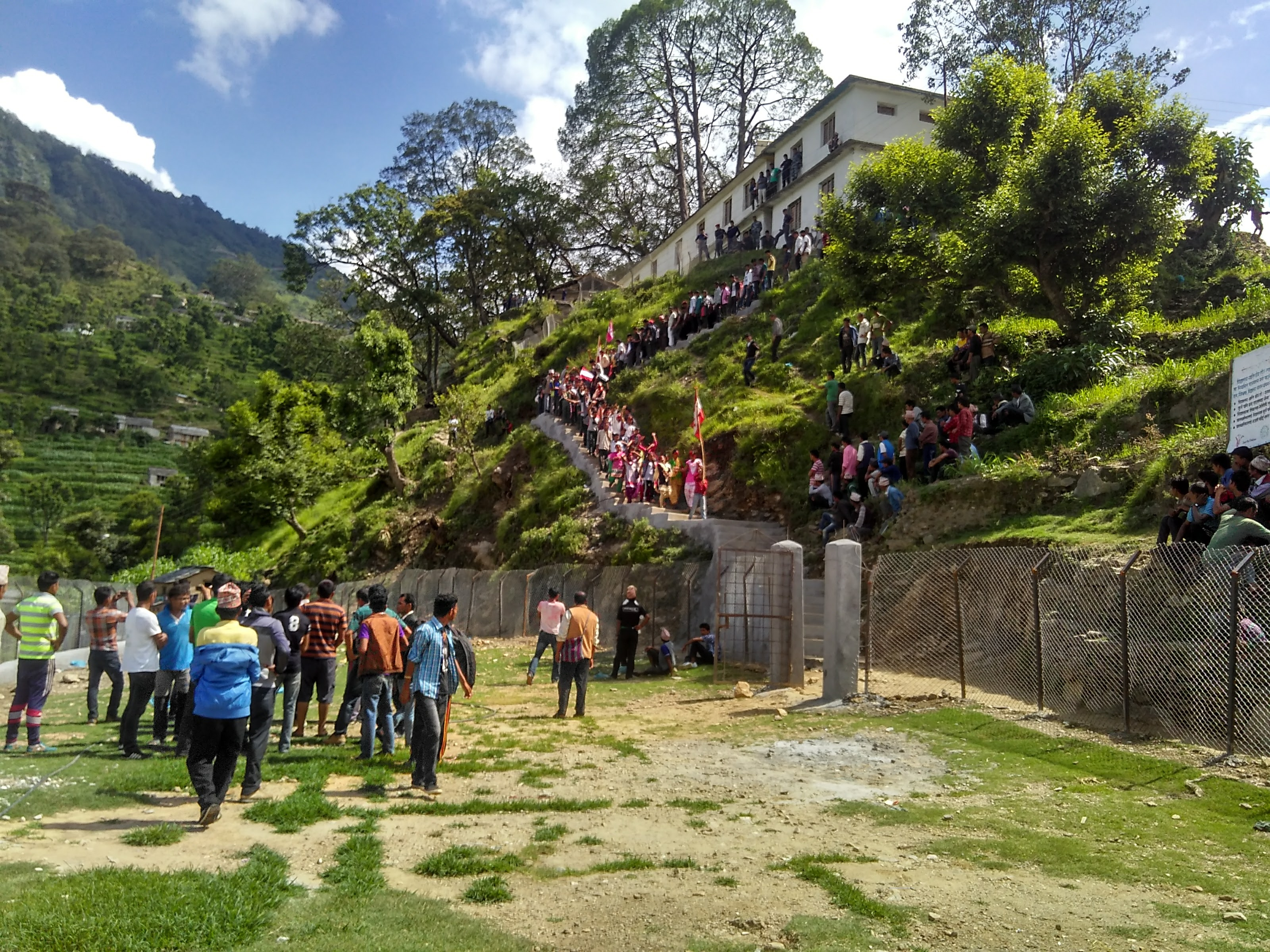 This pic was taken during the local election.